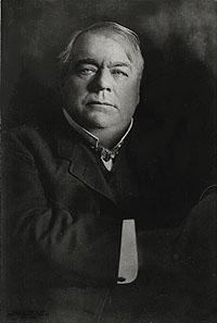 William Rockhill Nelson (photo by Kansas City Star).